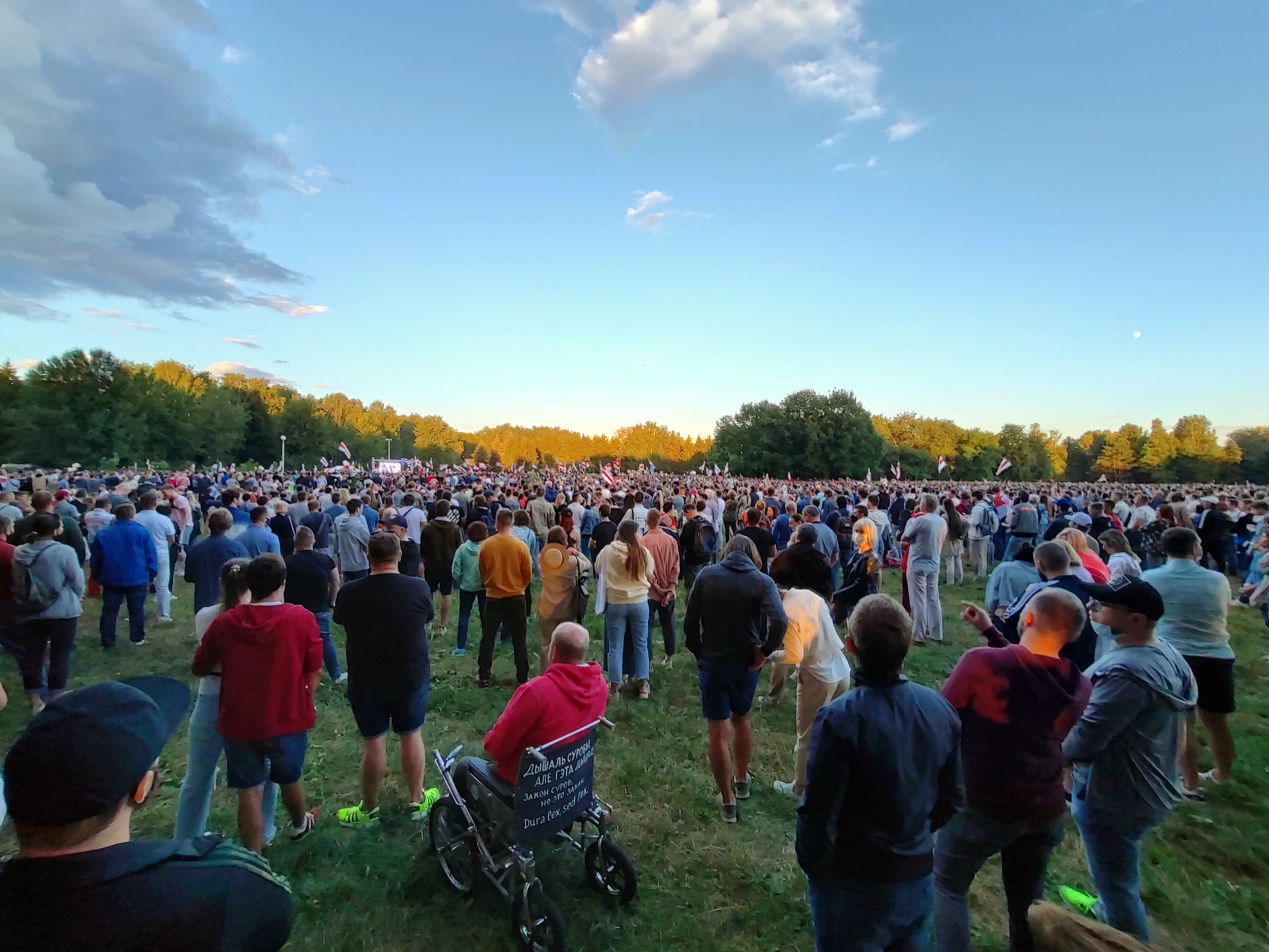 Rally in support of Sviatlana Tsikhanoŭskaya and the joint campaign headquarters. 30 July 2020, Minsk, Belarus